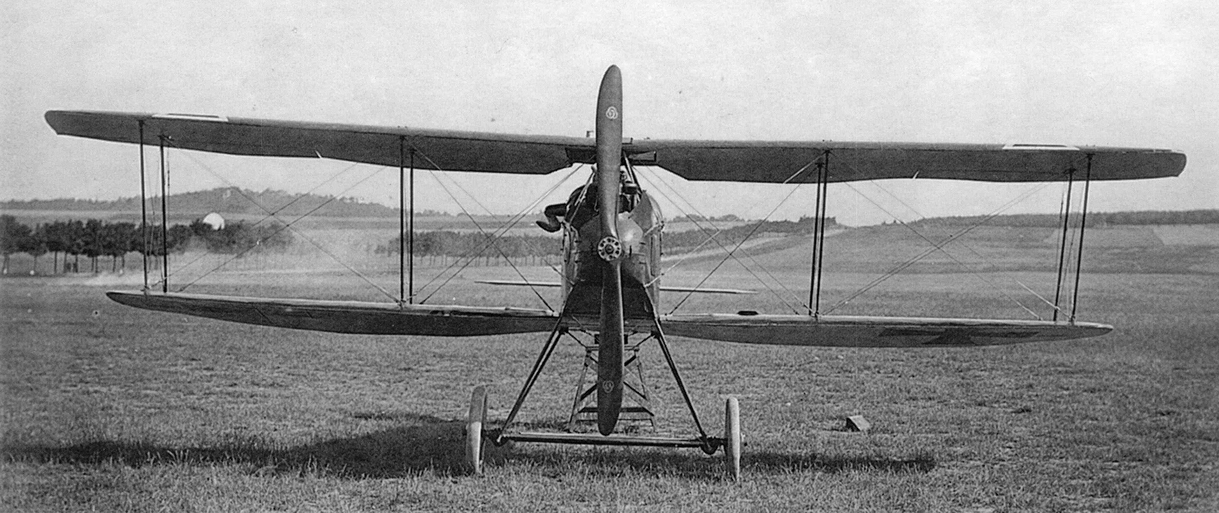 An allegedly "factory-fresh" Halberstadt D.II fighter photographed "nose-on", showing the characteristic wing trailing-edge "droop" on the fixed sections.